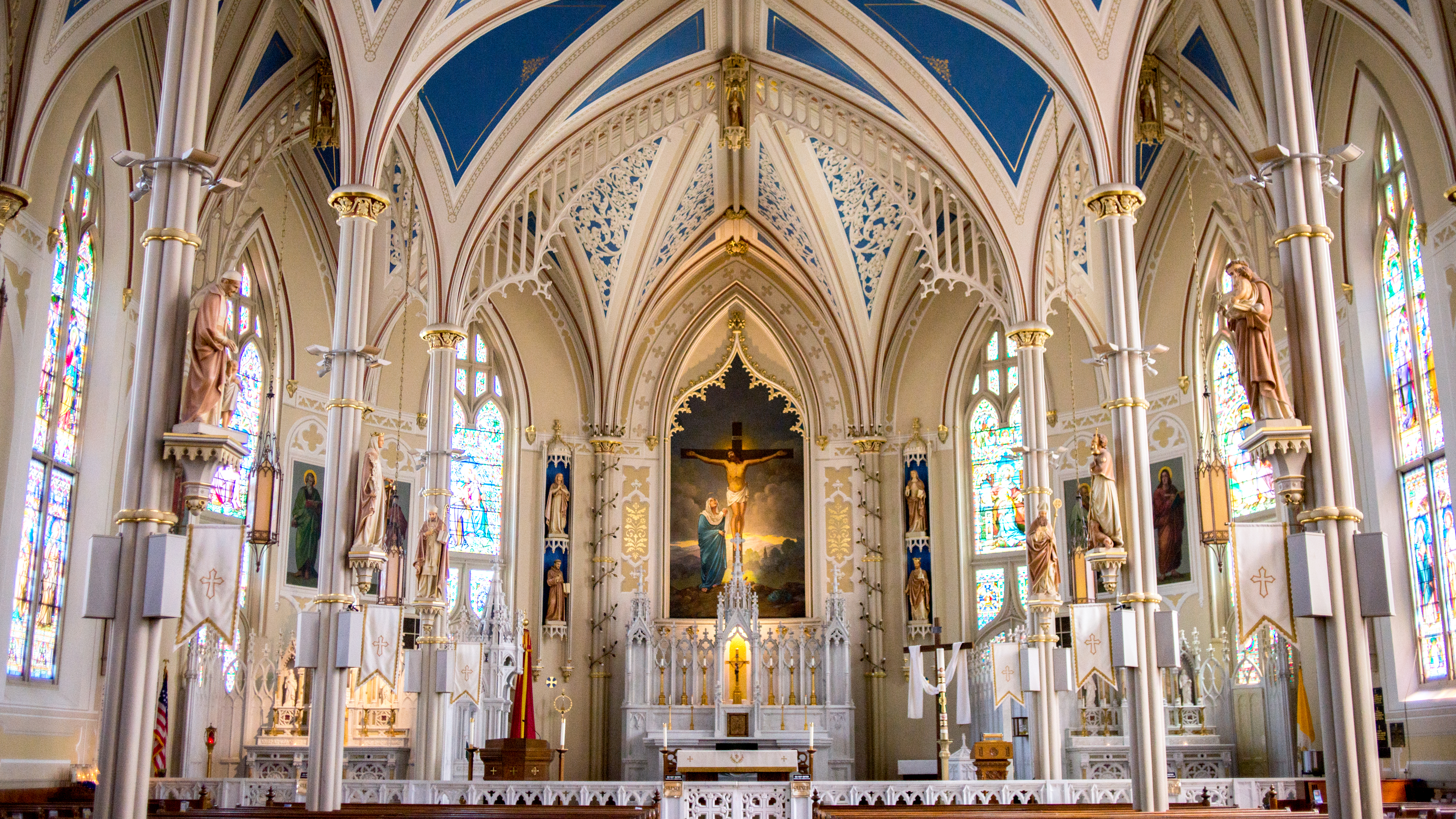 Alter of Basilica of St. Mary Basilica, Natchez